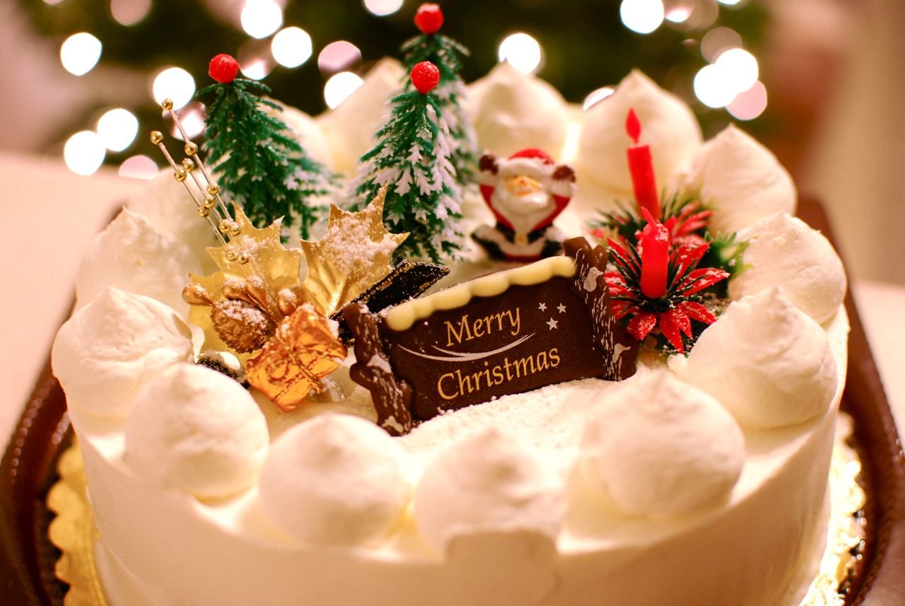 Our Christmas cake for Christmas Eve! We ordered it from Panya (Ala Moana Center).